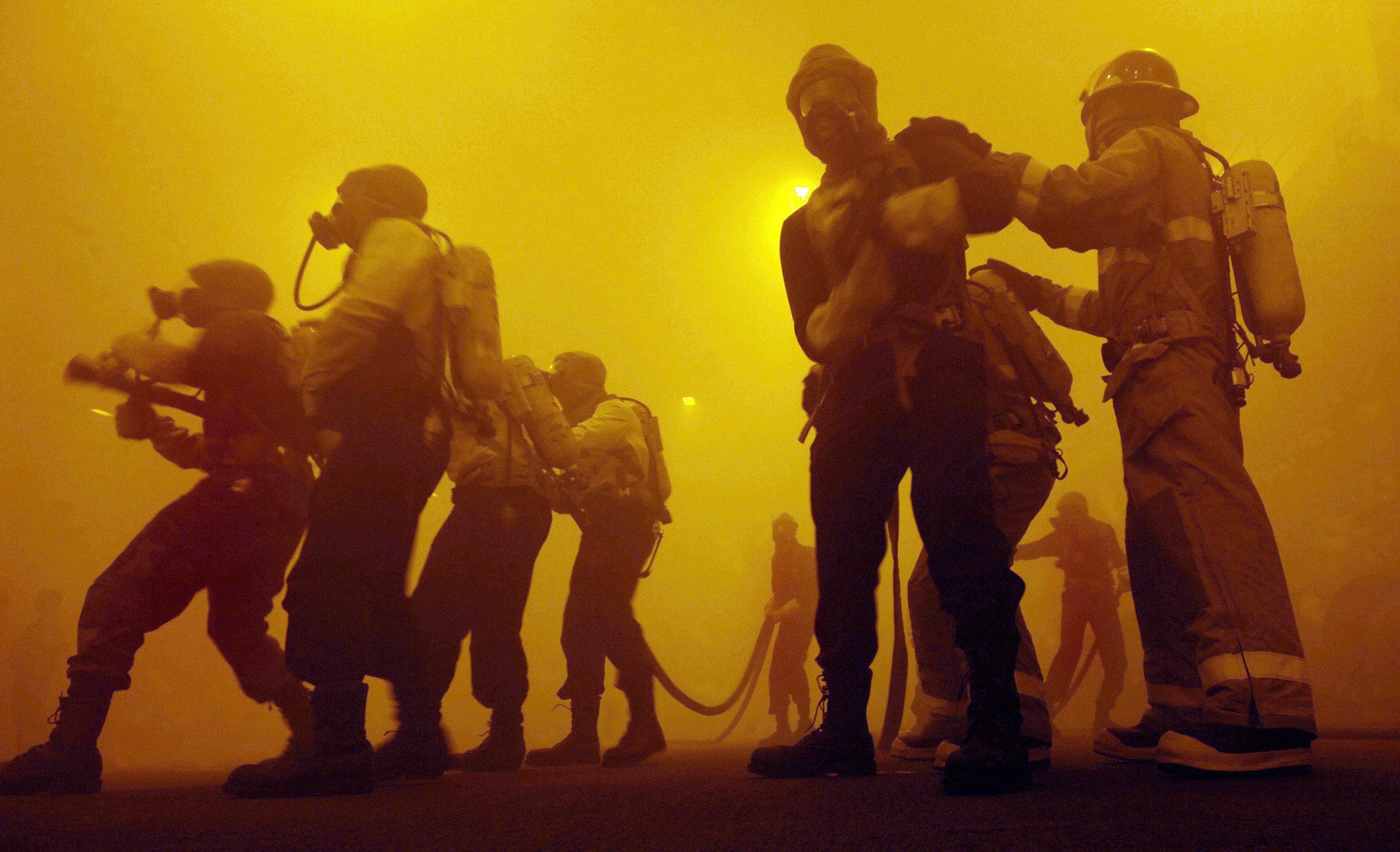 070117-N-5345W-107 U.S. Navy Sailors work side by side as they fight a simulated hangar fire aboard the Nimitz Class Nuclear-Powered Aircraft Carrier USS HARRY S. TRUMAN (CVN 75) on Jan. 17, 2007, during flight deck certifications somewhere in the Atlantic Ocean. (U.S. Navy photo by Mass Communication Specialist 3rd Class Kristopher Wilson) (Released)